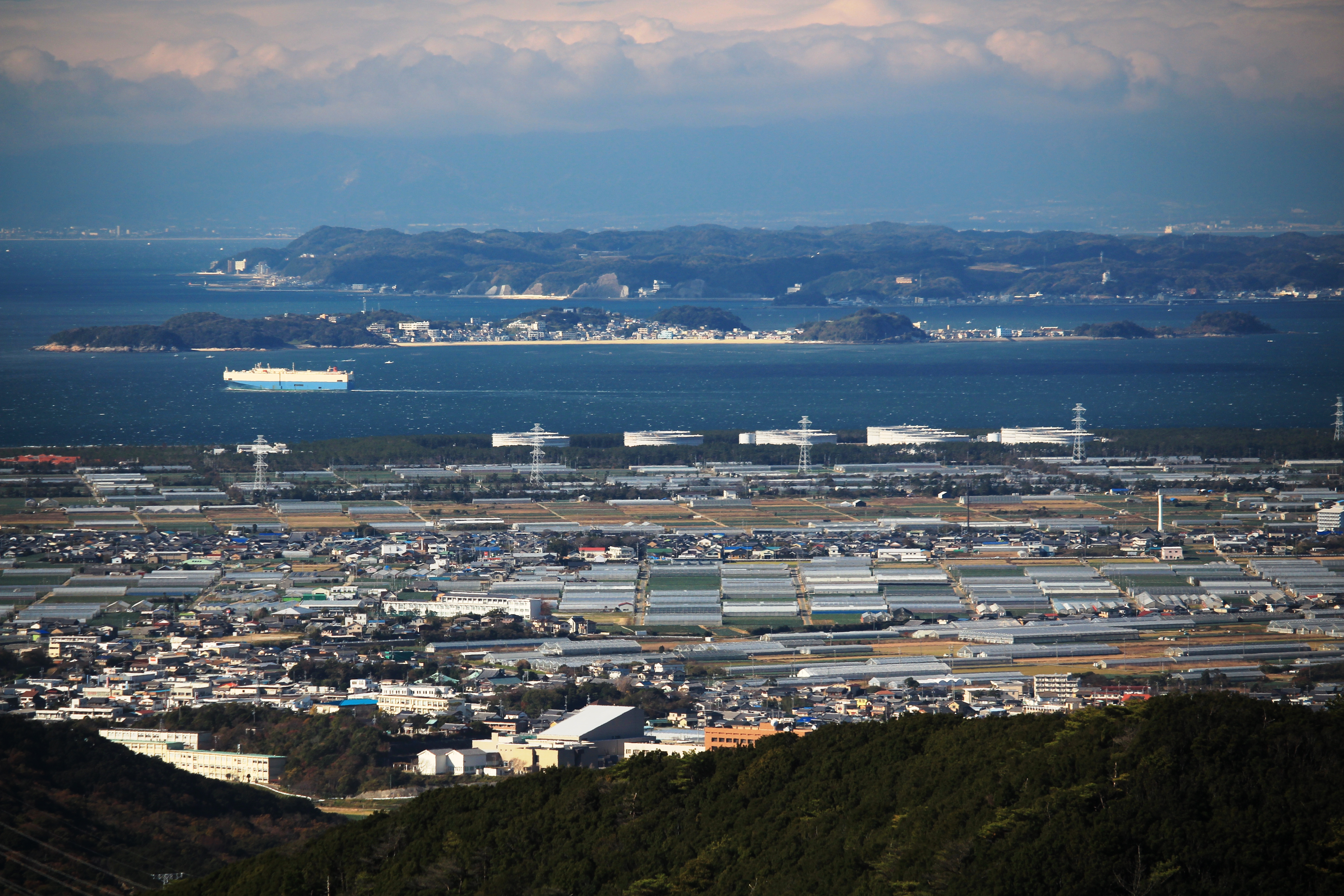 Shino Island seen from Mount Ō, in Aichi prefecture, Japan.